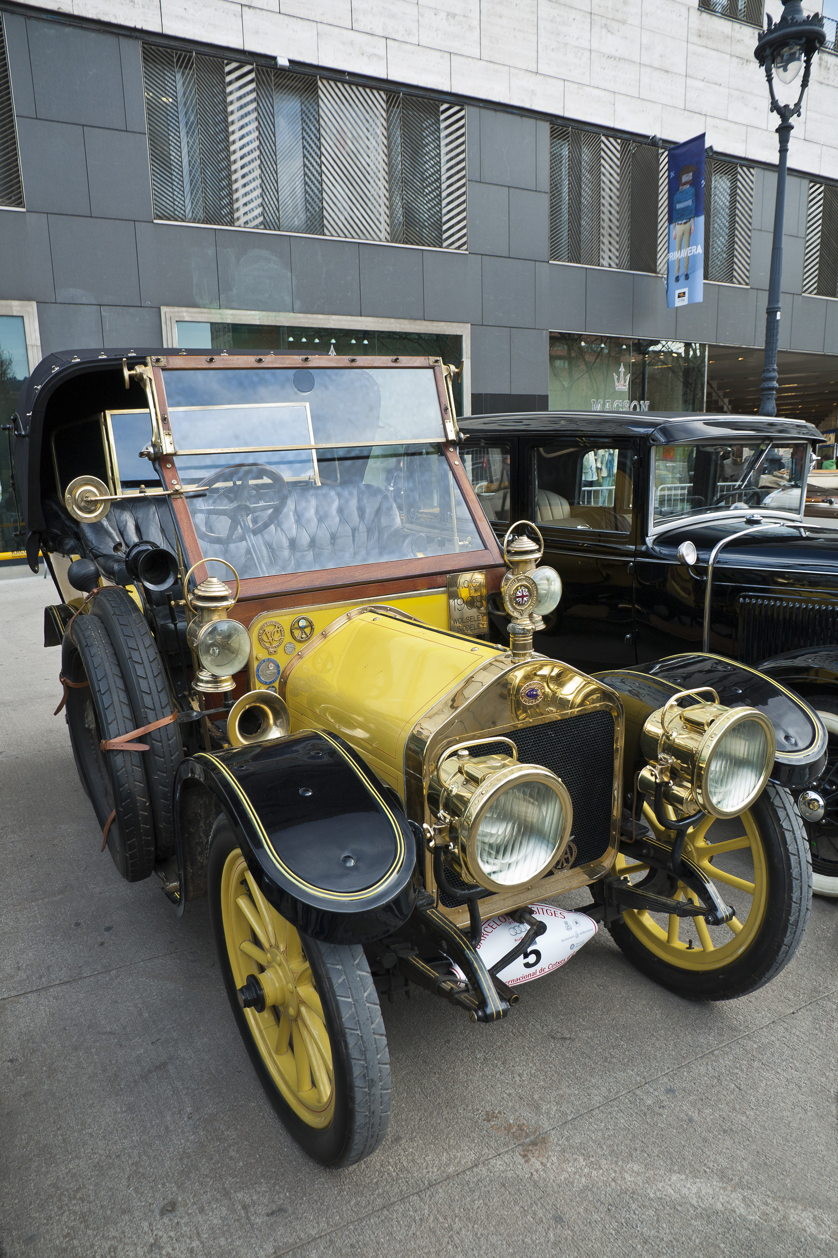 Wolseley Siddeley, 1908 14 hp tourer Taken on March 10, 2012, Barcelona, Catalonia, ES registration H-2007-BBB Tentative identification: Engine: 4-cylinder 14 hp 2613 cc Body: rotund phaeton (tourer)